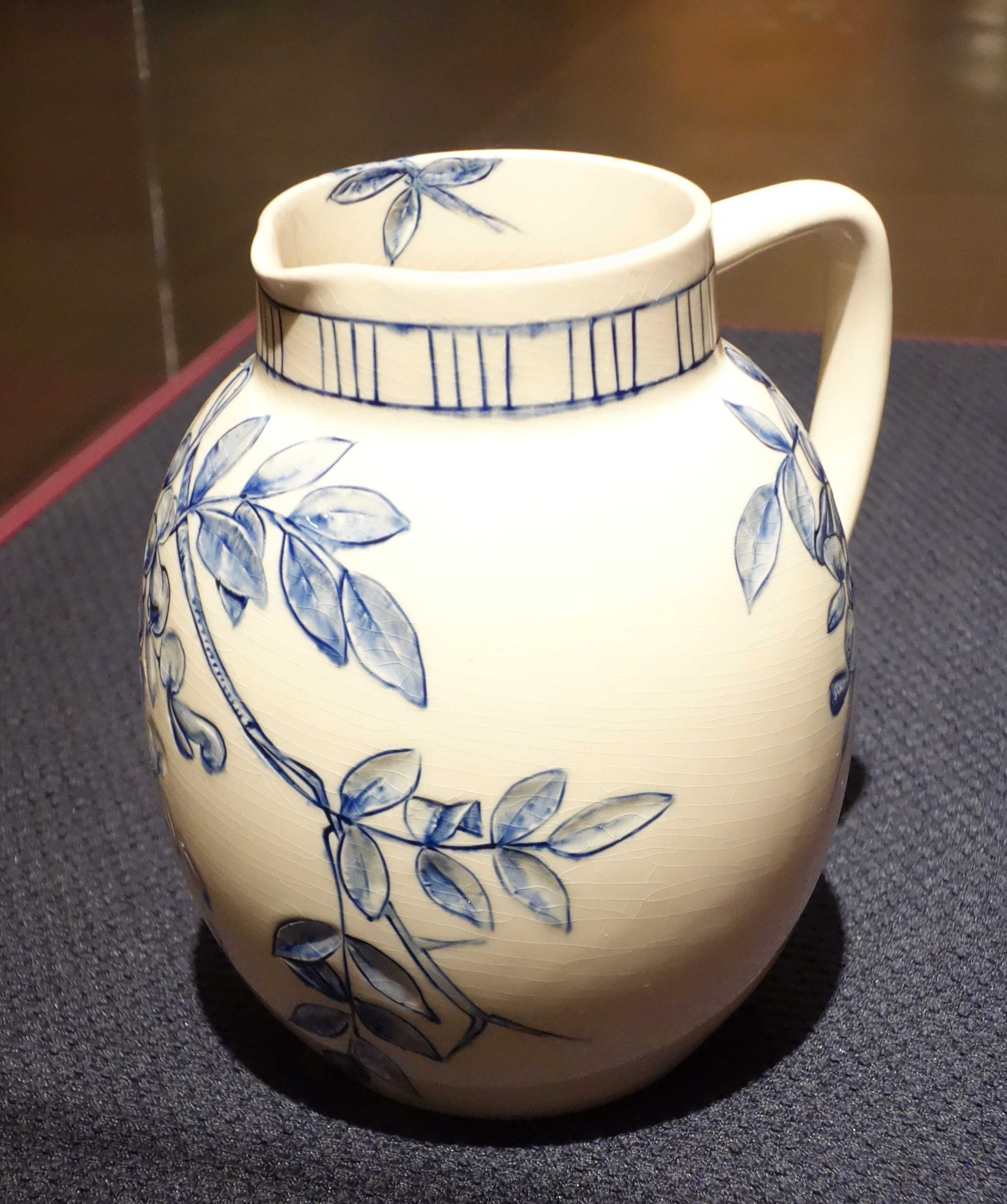 Exhibit in the Brooklyn Museum - Brooklyn, New York, USA. This artwork is in the public domain because the artist died more than 70 years ago.